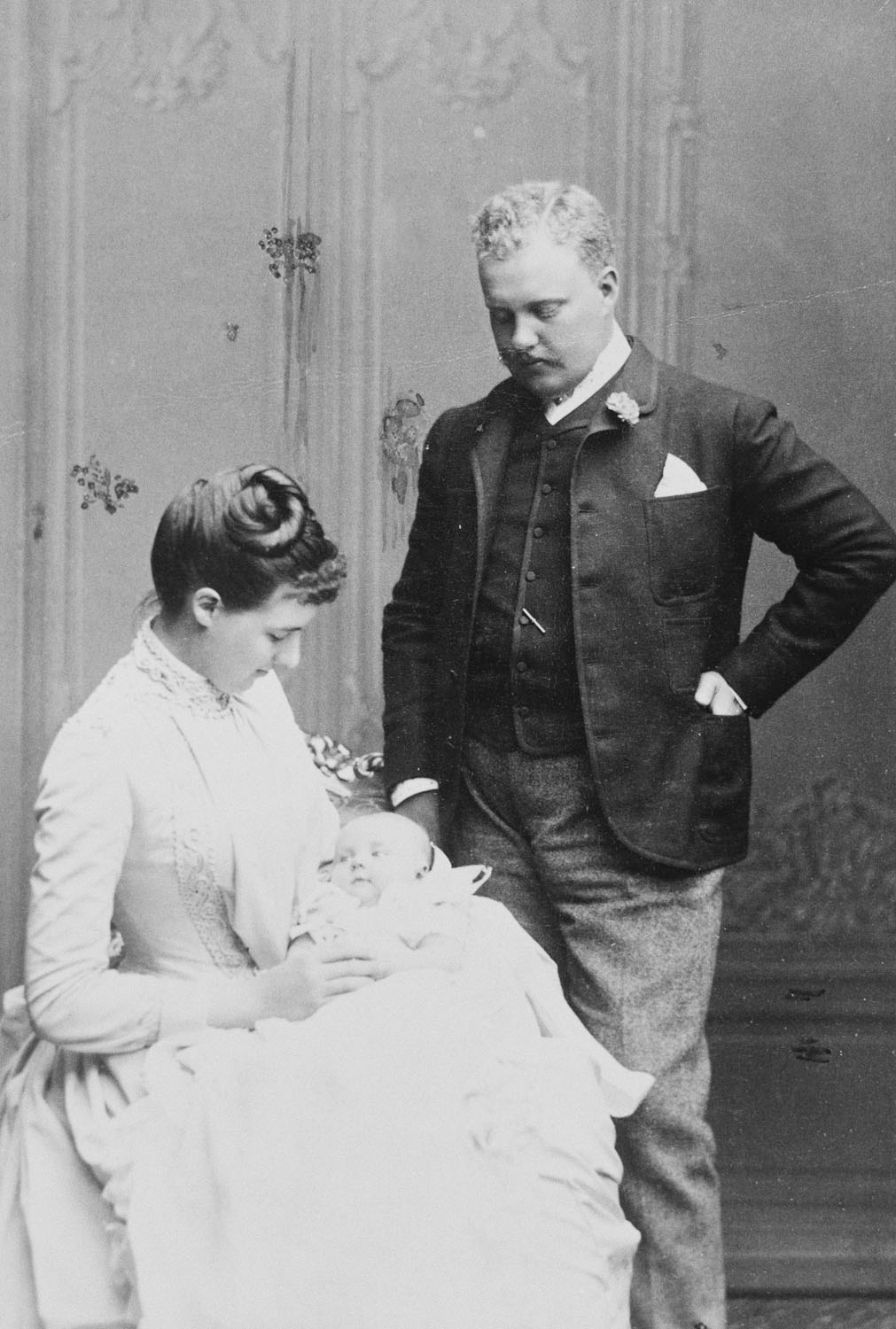 D. Carlos, Duke of Braganza and Amélie, Duchess of Braganza, The Crown Prince and Princess of Portugal, with their infant son D. Luís Filipe, in 1888.